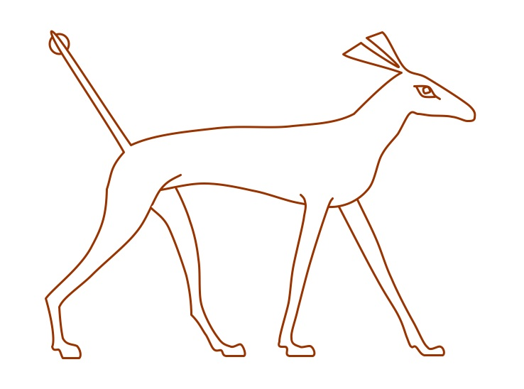 Line drawing of the "sha" animal, based on original by E.A. Wallis Budge (d. 1934) in "The Gods of the Egyptians" (1904) (now in Public Domain).